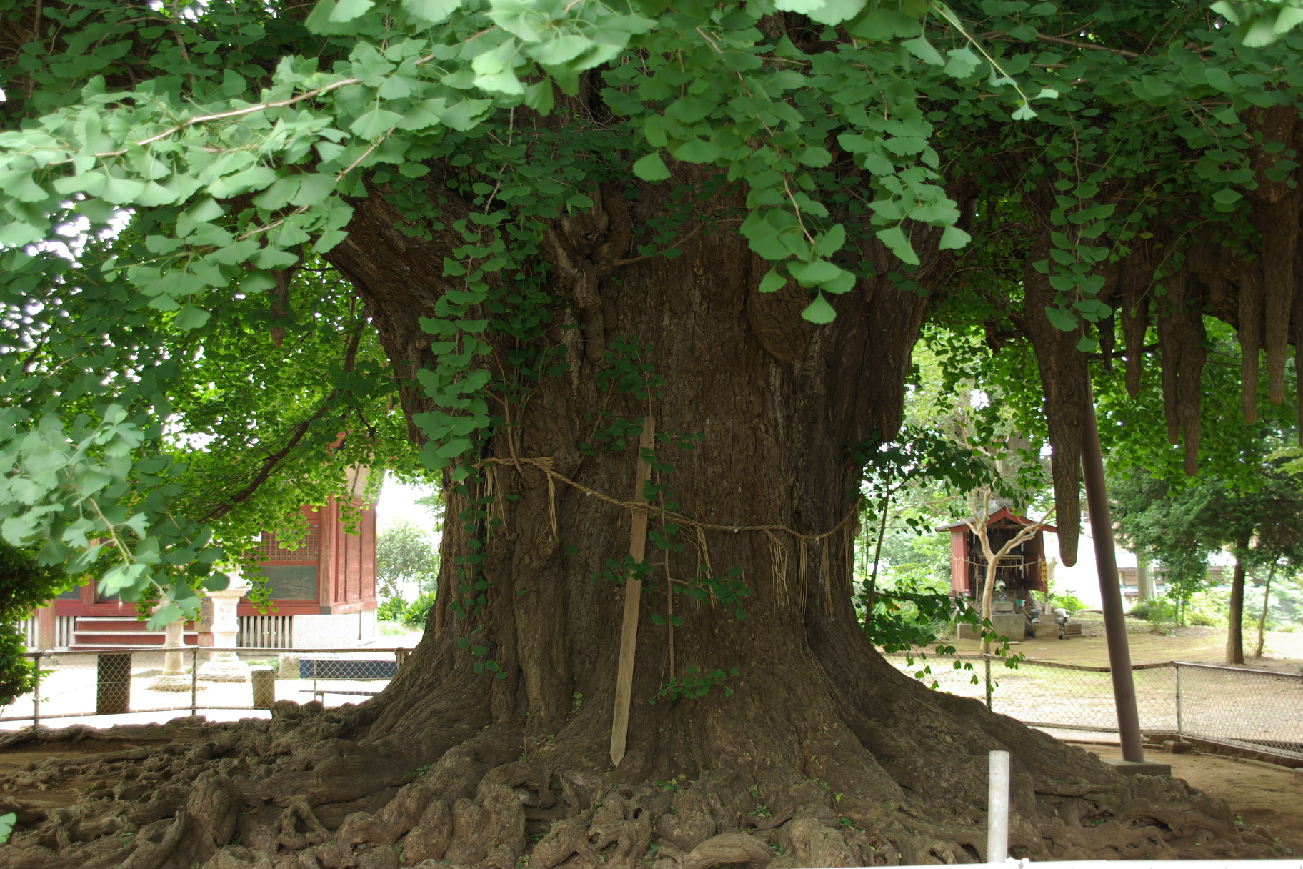 Ginkgo biloba in the Chiba temple in Japan